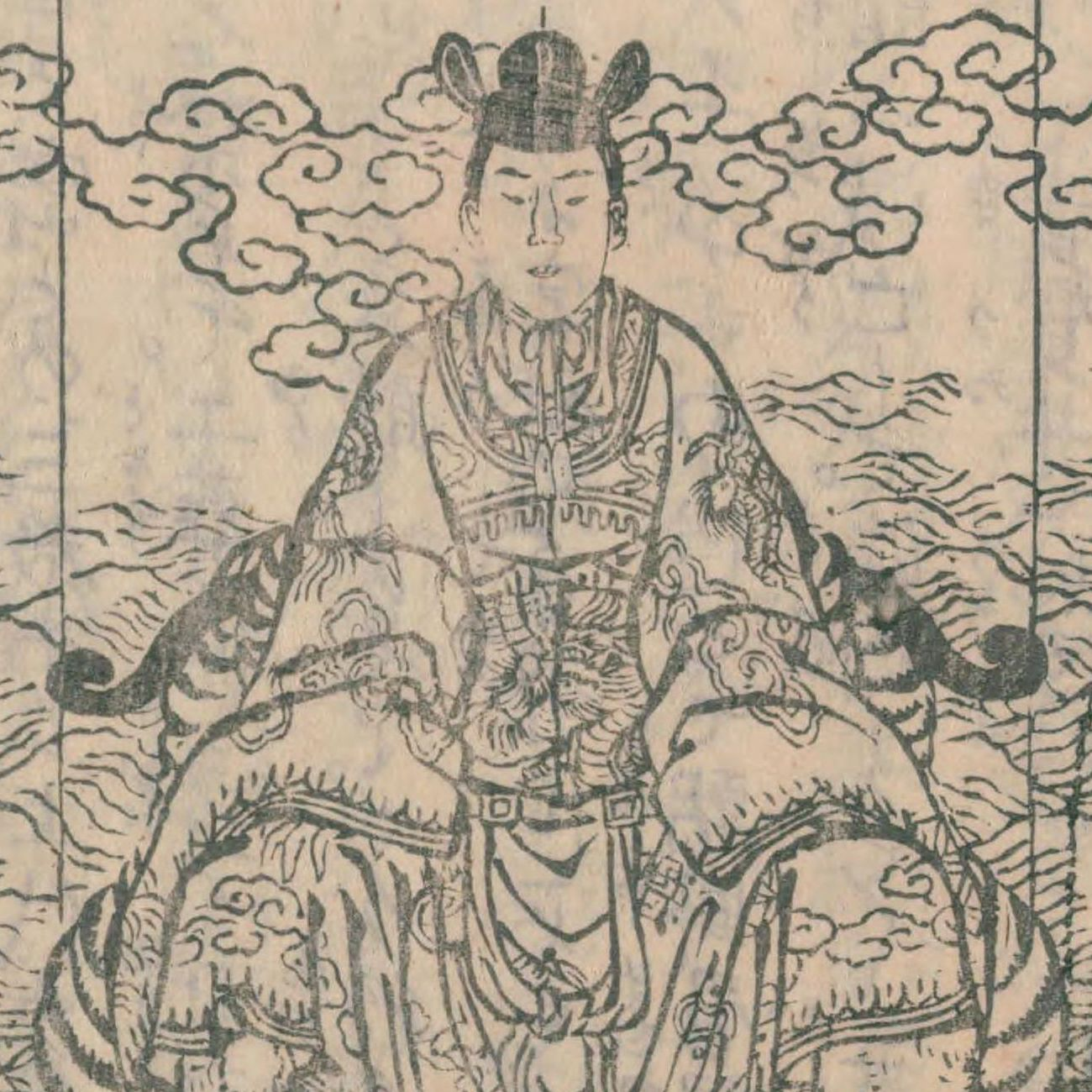 The enthronement of Sutemaru, later the Chuzan King Shunten in the story Chinsetsu Yumiharizuki.